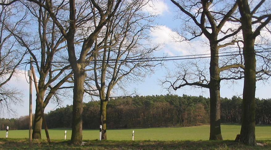 Jütchendorfer Berg (hill, former vineyard). The village Jütchendorf is a part of the town Ludwigsfelde in the district Teltow-Fläming, state Brandenburg, Germany. The village is situated in the Nature park Nuthe-Nieplitz.